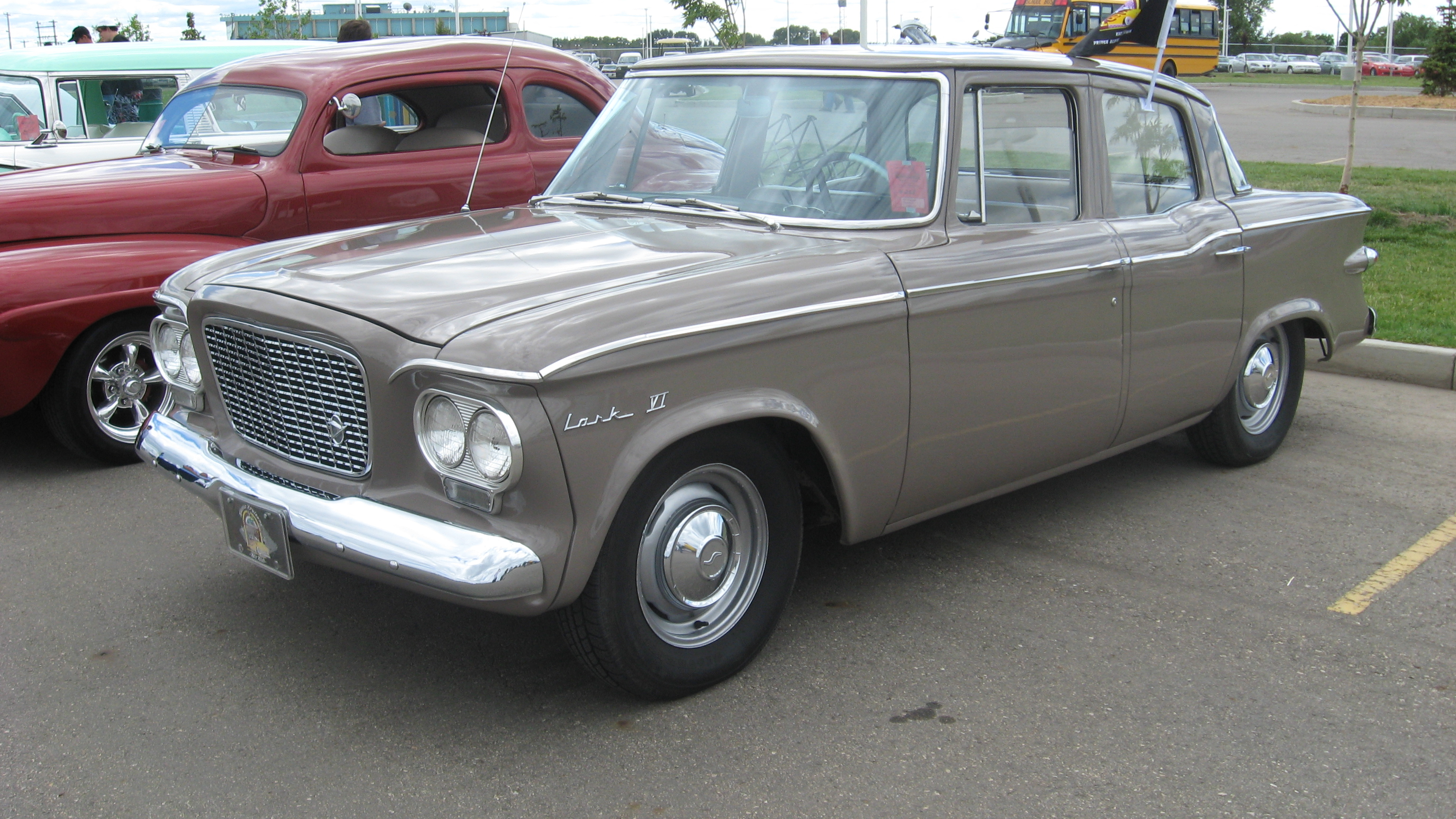 Restored 1961 Studebaker Lark VI four-door sedan, shot at a local car show/swap meet